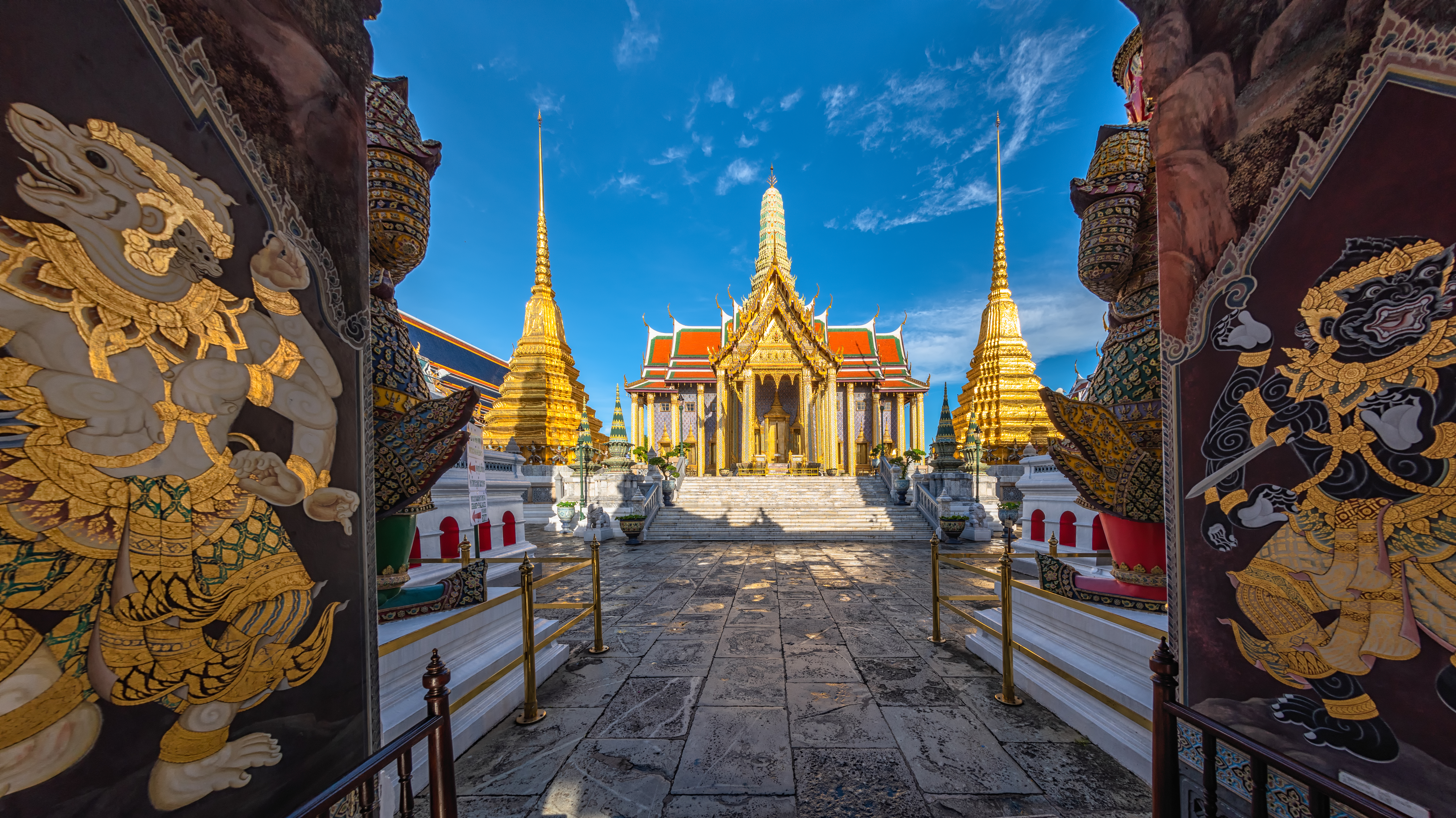 Wat Phra Kaeo, Buddhist temple in Bangkok, Thailand